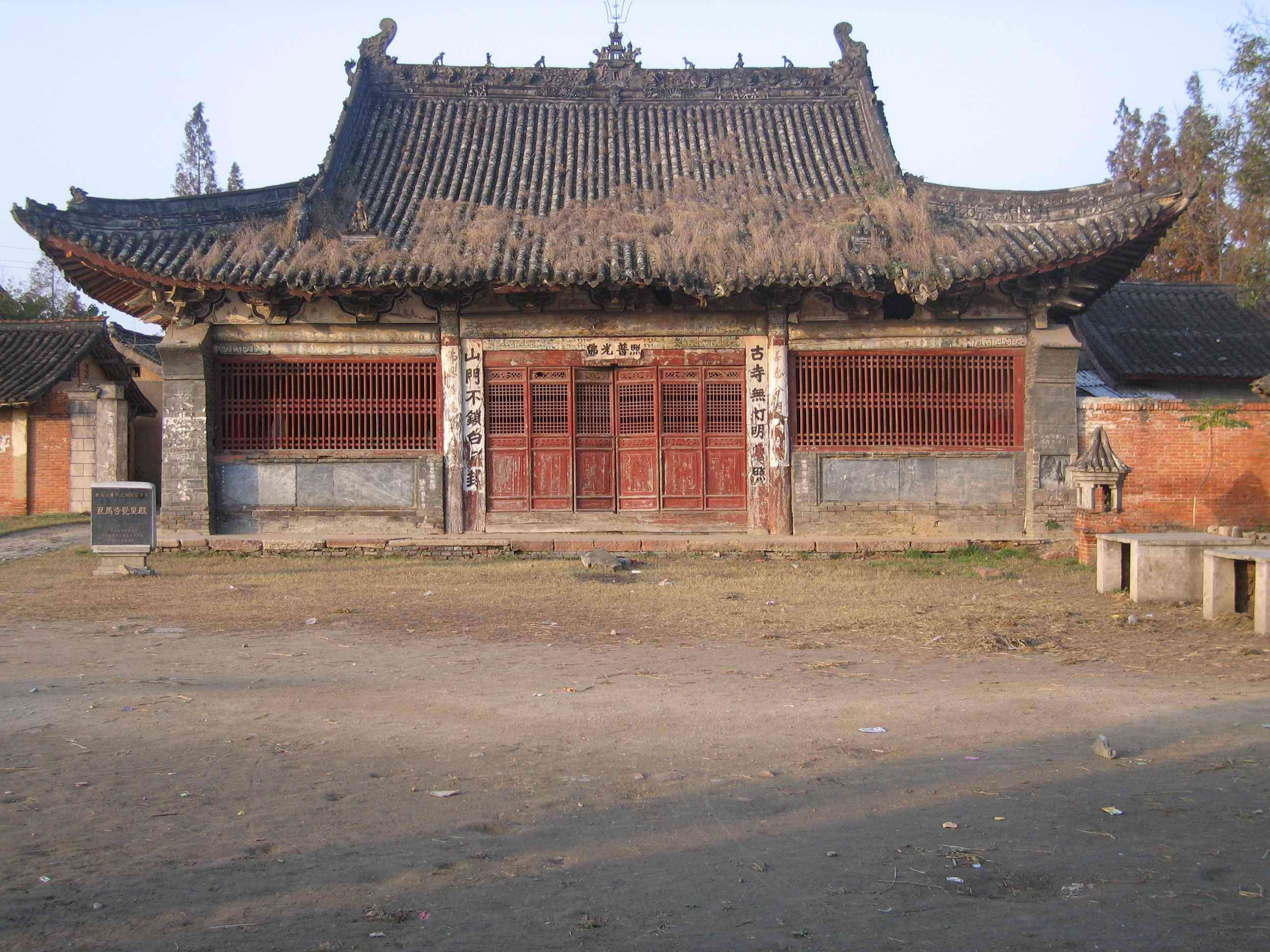 Imperial Palace Liangmasijue, located in Yang County, Shaanxi Province, China